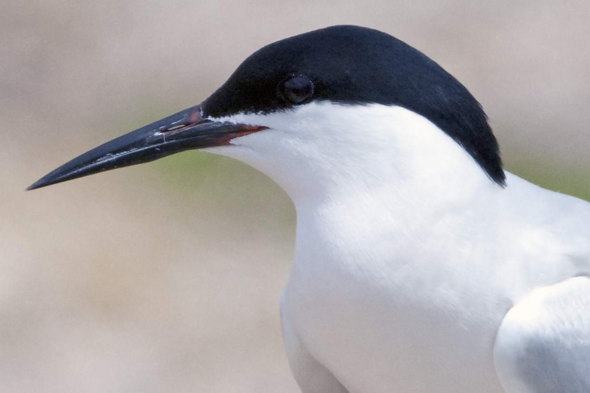 Roseate Tern portrait. Petit Manan Island, Maine Coastal Islands NWR. Kirk Rogers/USFWS.